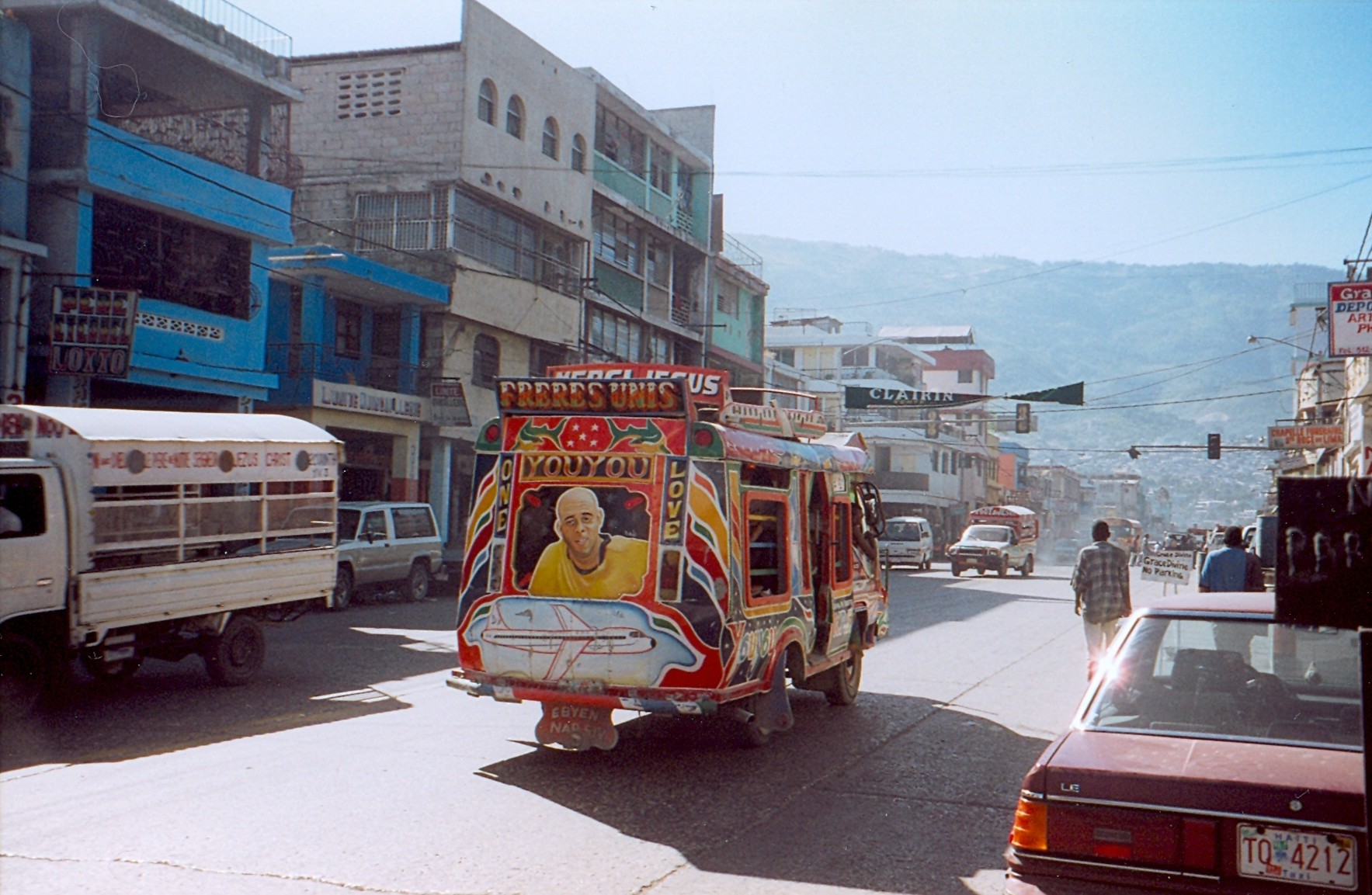 A taptap (shared taxi) in central Port-au-Prince, Haiti.